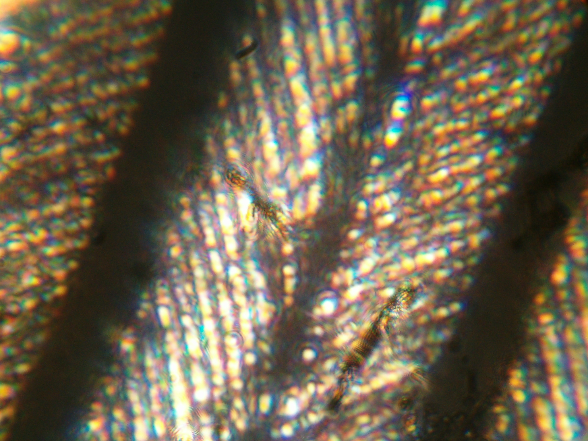 A common bird feather, 700 X